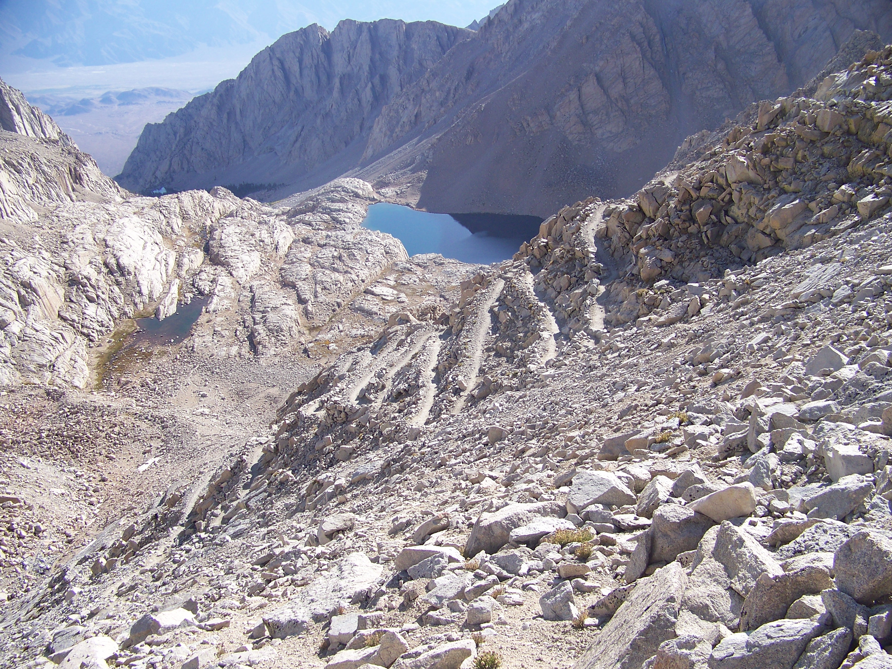 A view of some of the switchbacks on the Mount Whitney Trail, Eastern Sierra Nevada, Inyo National Forest, California. Trail Camp is adjacent to the small lake on the far left.